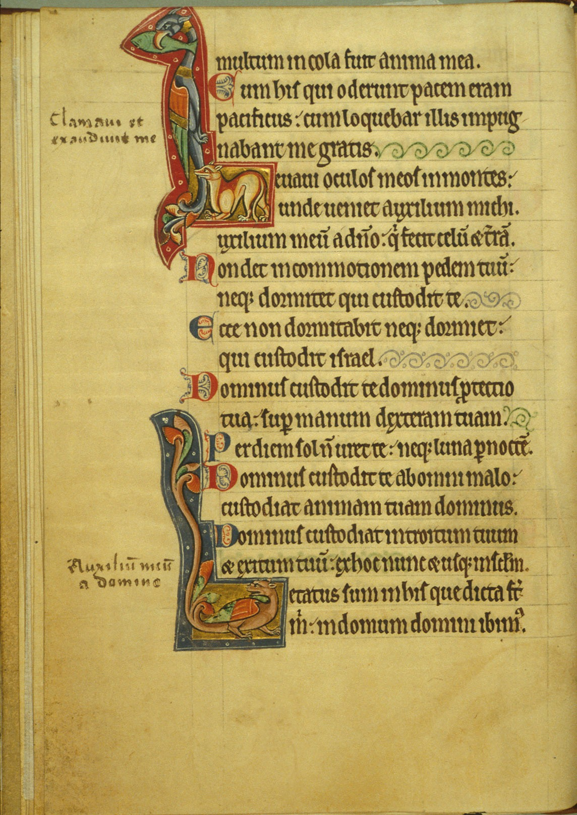 Illuminated manuscript, psalter.